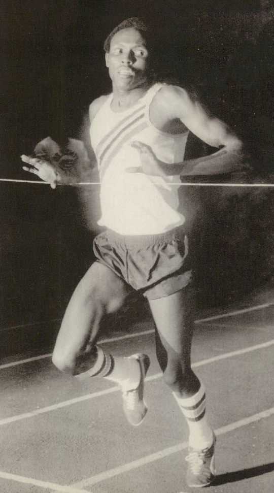 1975 Olympic Invitational Meet Tanzanian Filbert Bayi Held Record Press Photo